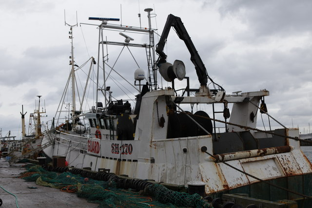 Quay at Scarborough Old Harbour The trawler in the picture is Maggie M MBE (SH 170), named after Maggie Mainprize, the skipper is Robert Mainprize. (Maggie Mainprize used to run a charity shop in Scarborough, to aid fishermen) On the port side rail there is a guard sign, probably as the trawler has been used recently on "guard duties", when it hasn't been fishing (such as preventing vessels colliding with North Sea oil and gas platforms or structures). In the foreground on the Quay is a Trawl net. This vessel has the capability of fishing with two trawl nets, side by side.